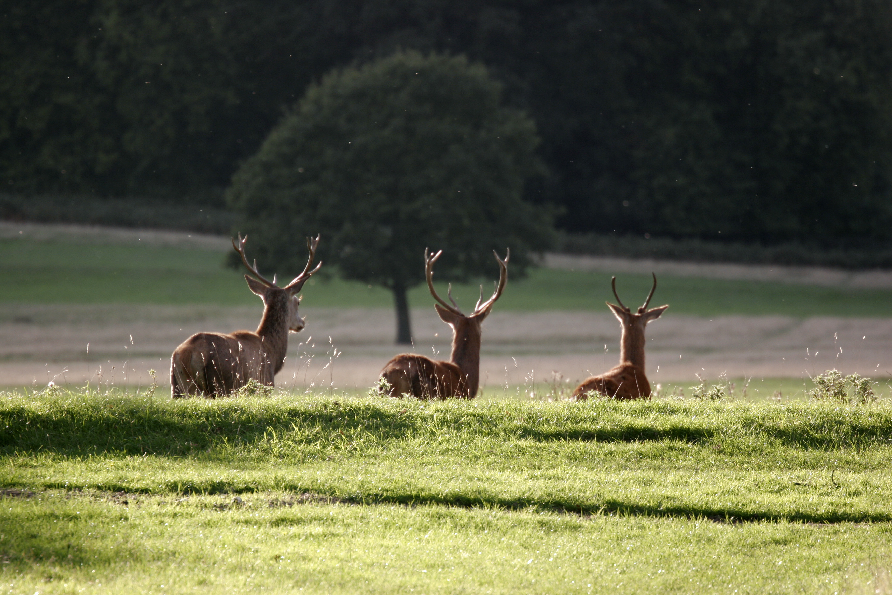 Richmond Park, London, England